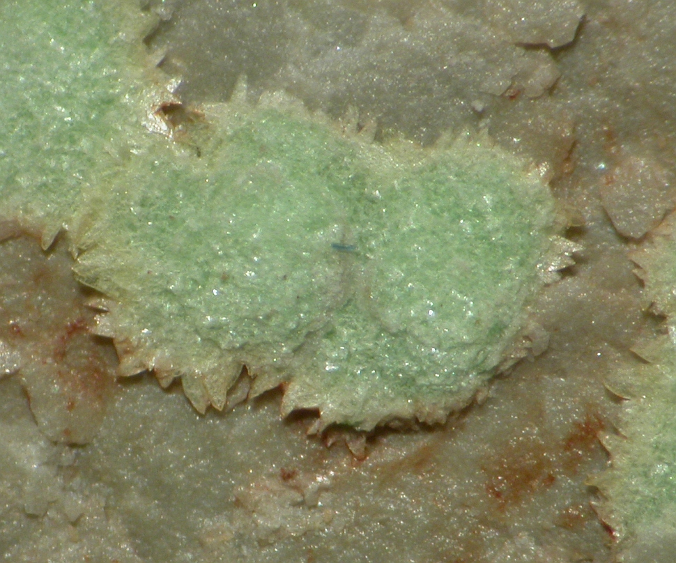 Abernathyite, Heinrichite Locality: Riviéral, Lodève, Hérault, Languedoc-Roussillon, France Pale yellow abernathyite crystals and green heinrichite crystals in the center of the cluster. Field of view 3 mm.